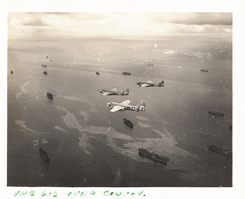 Kwajalein Island (Marshall Islands)-A convoy sails under the watchful eyes of three of VMB-613's crews. Patrols of the shipping lanes began on April 3, 1945 and continued through the end of the war.